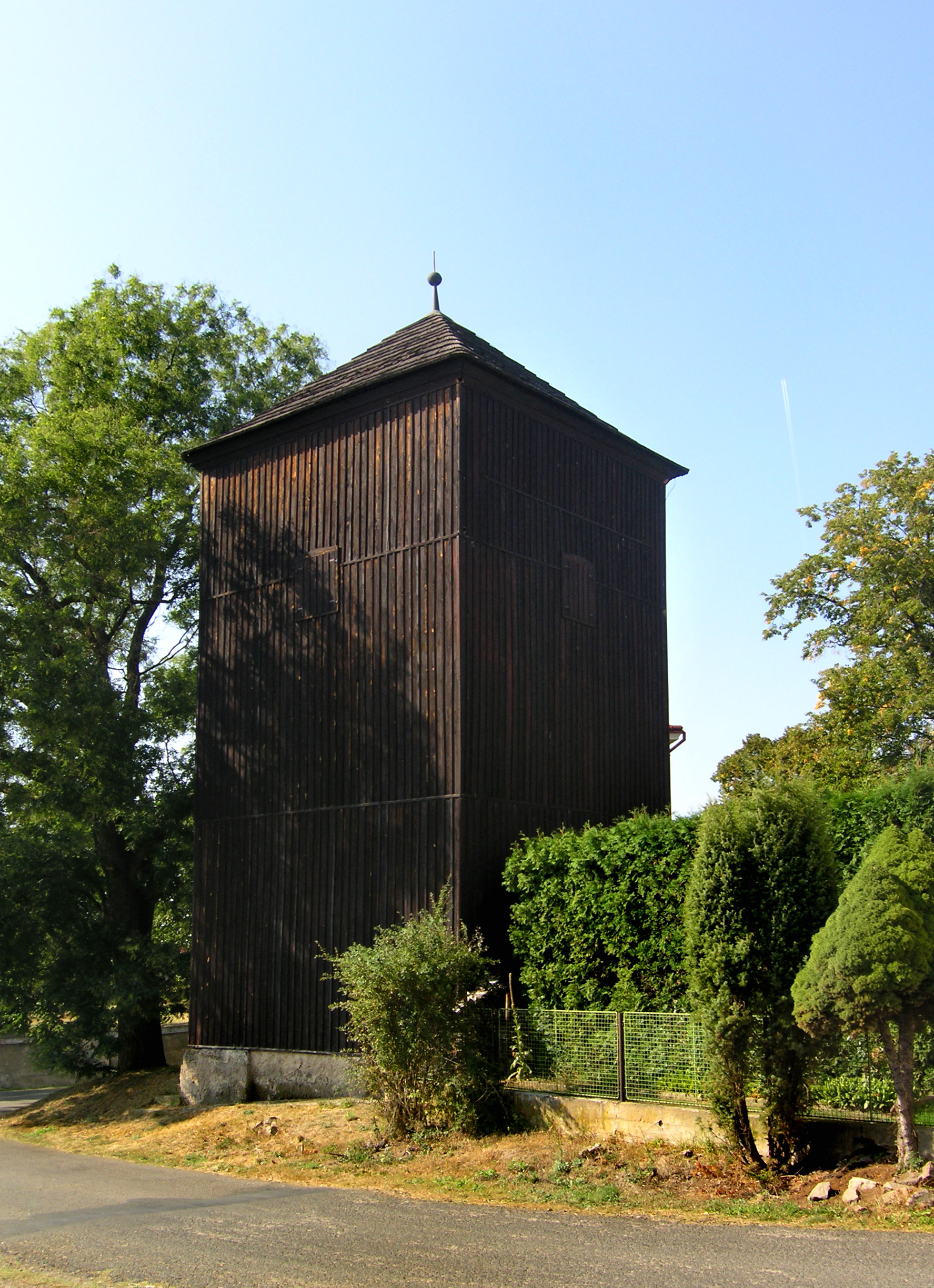 Bell tower in Libčany, Czech Republic